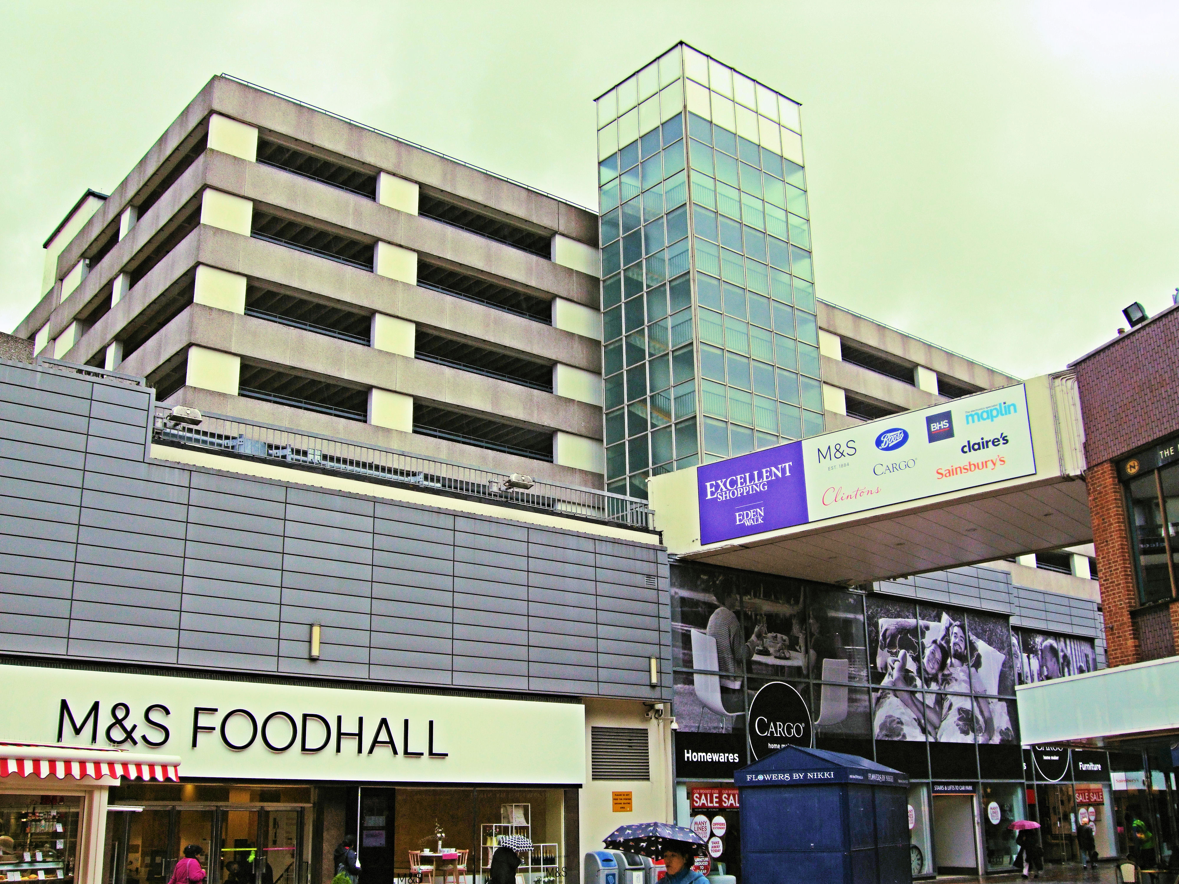 Eden Walk, Kingston upon Thames, UK.